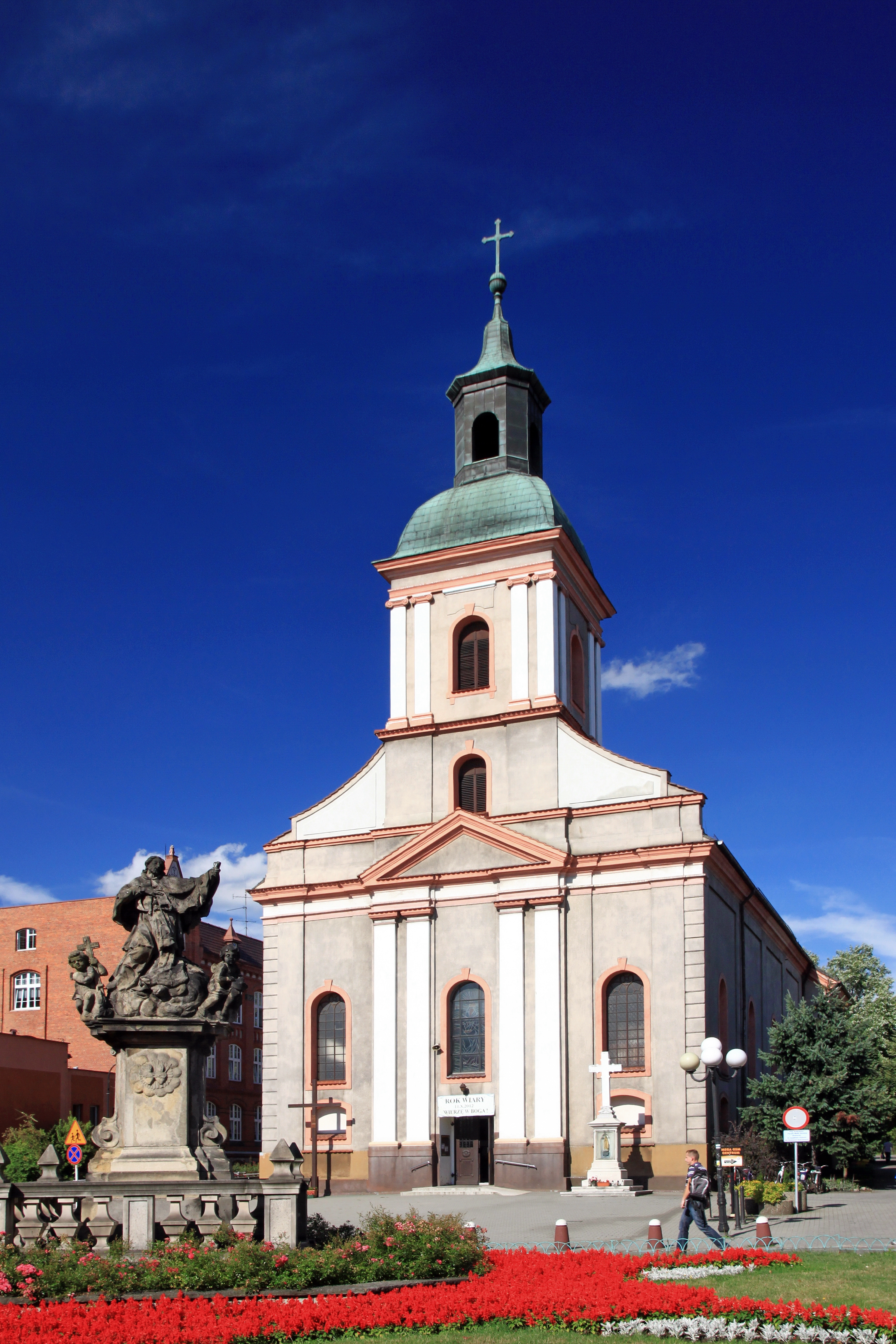 Rybnik, Our Lady of Sorrows parish church, build in 1798-1801, 1858-1863